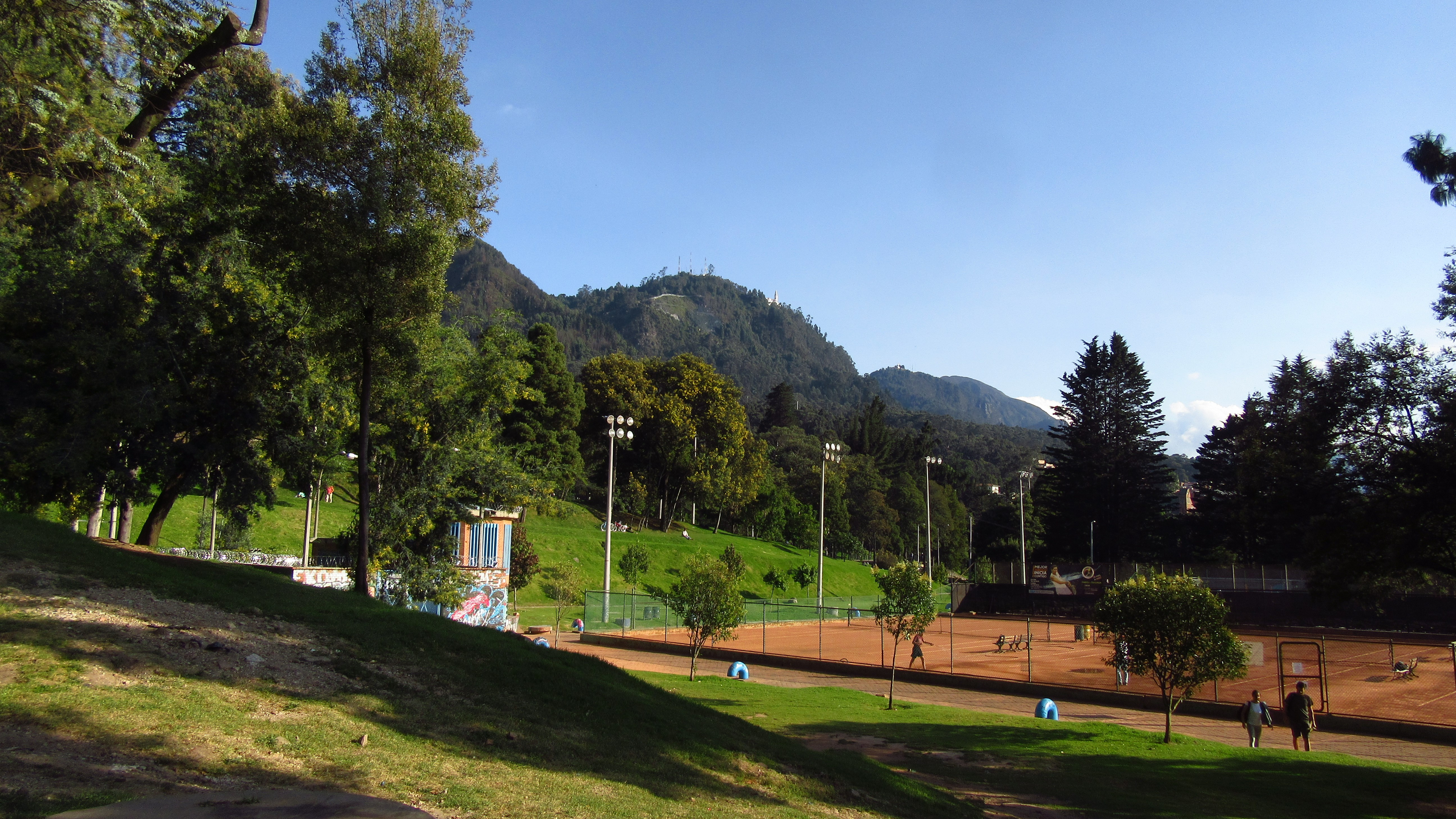 2018 in Bogotá